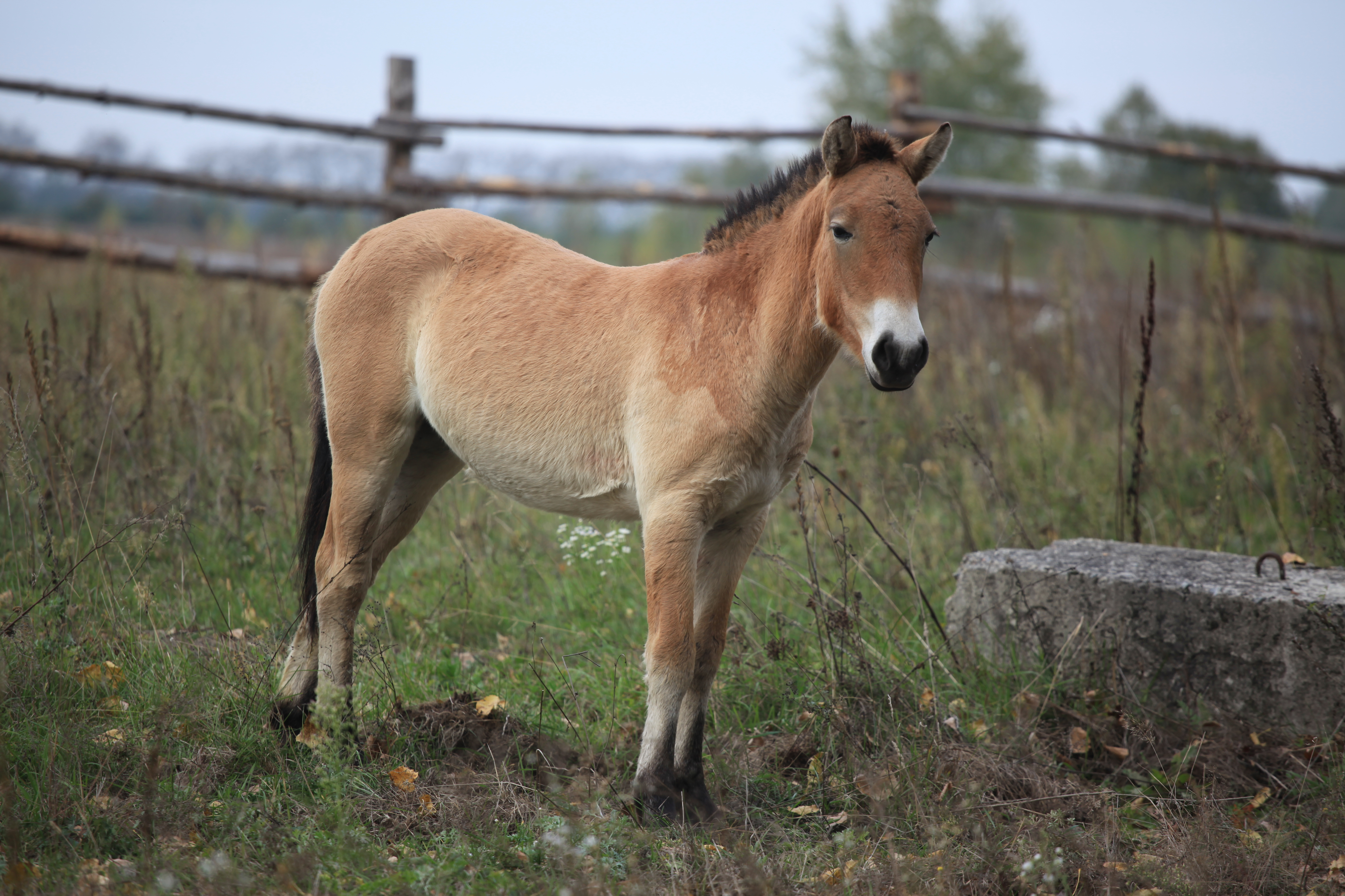 The Przewalski's Horse is an endangered species of wild horse that has been introduced into the wild of the Chernobyl Exclusion Zone. Nearly 20 of these horses were released in the region in 1998 and scientists estimate that the number of horses has grown to 80-90 in the years since. Copyright: IAEA Imagebank Photo Credit: Dana Sacchetti/IAEA